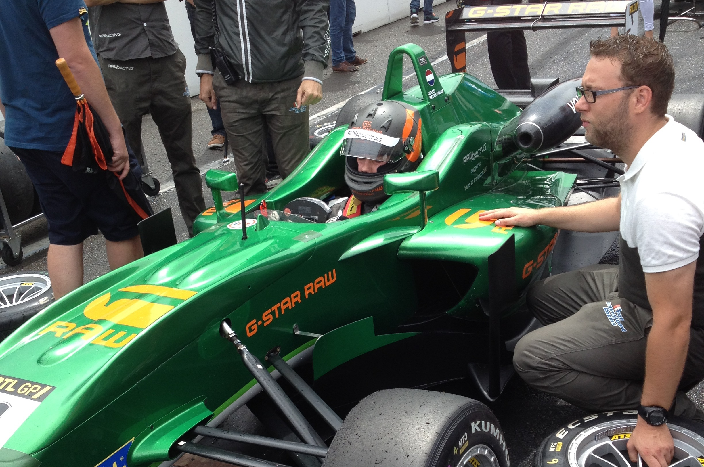 Jules Szymkowiak at the 2014 Zandvoort Masters